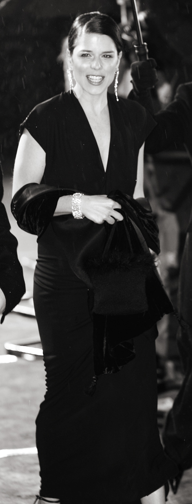 Neve Campbell at the 2006 BAFTAs